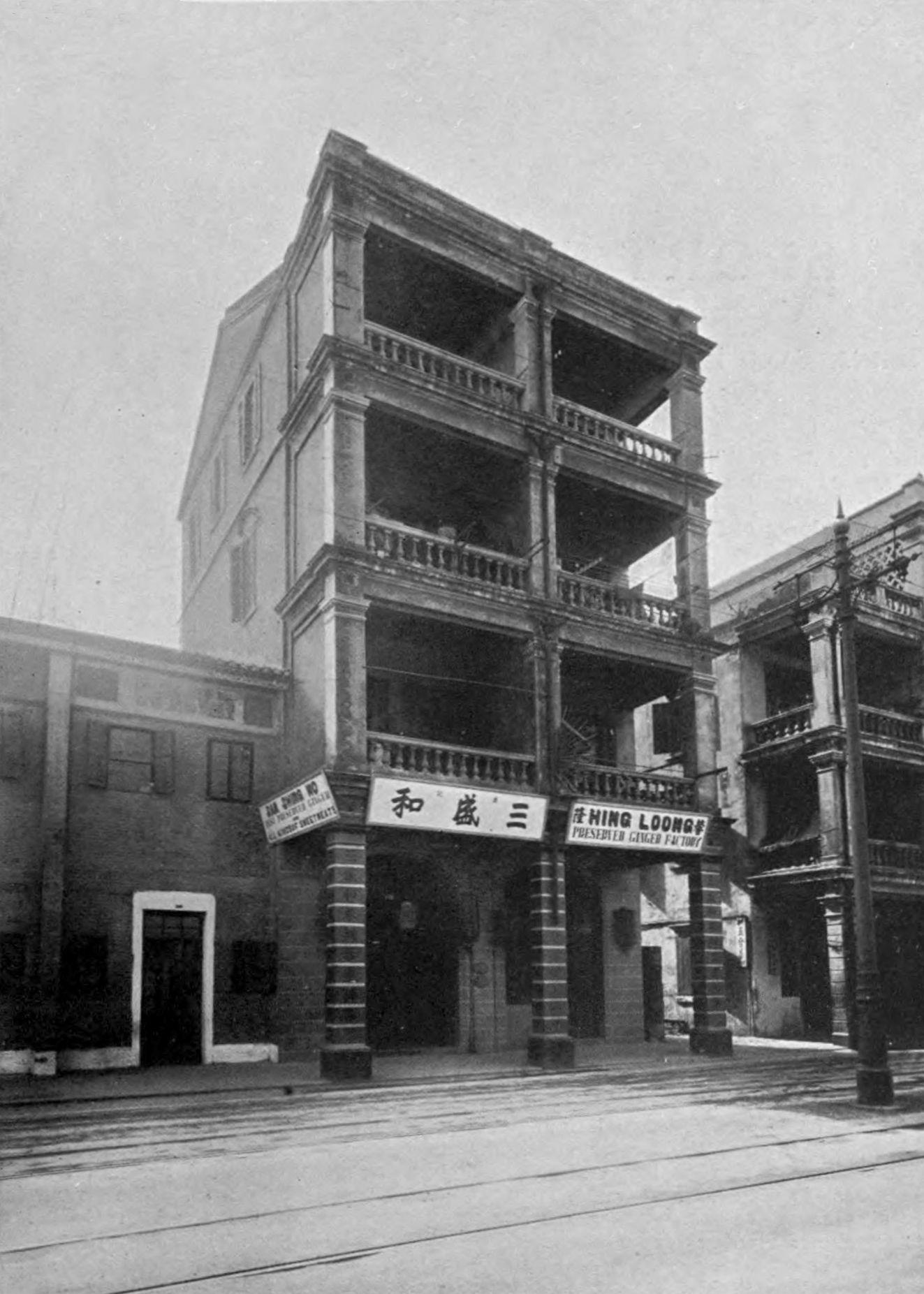 hing loong ginger factory